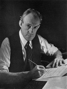 Oswald Bruce Cooper, graphic designer and designer of the typeface Cooper Black at his work desk